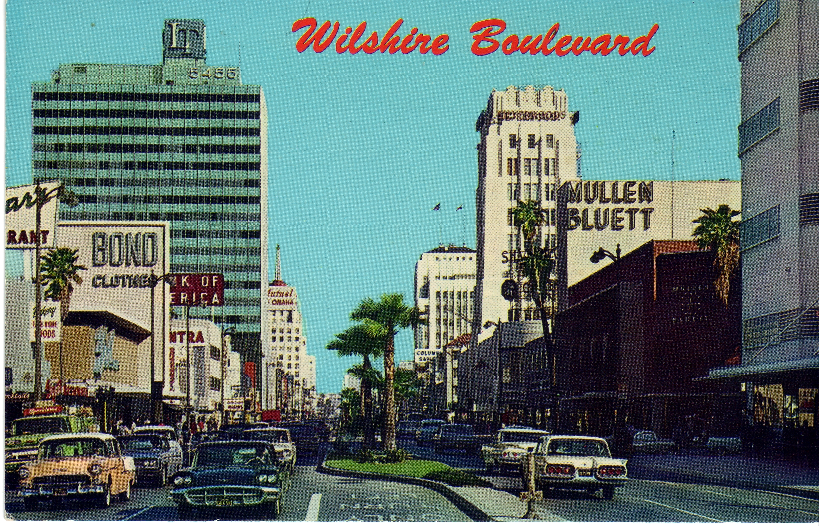 Color photocrome postcard of Wilshire Boulevard through the Miracle Mile district of Los Angeles, California during the early 1960s. The Lee Tower (built in 1958 by D. Everett Lee) is seen on the left-hand side background, the Mullen & Bluett building (built in 1949 by Stiles O. Clements) is seen on the right-hand side foreground and the Desmond's Hancock Park Store (built in 1928 by Gilbert S. Underwood) is seen on the right-hand side background. View looking east on Wilshire Boulevard between South Ridgeley Street and South Burnside Avenue. The back of the postcard reads: ON THE MIRACLE MILE WILSHIRE BOULEVARD LOS ANGELES, CALIFORNIA Extending from downtown Los Angeles to the ocean at Santa Monica, this famous boulevard is one of the most beautiful thoroughfares in the United States. COLOR PHOTO BY ELLIS-SAWYER L.169–WESTERN PUBL. & NOV. CO., 259 SO. LOS ANGELES ST., L.A., CALIF. CURTEICHCOLOR ® 3-D NATURAL COLOR REPRODUCTION (REG. U. S. A. PAT OFF.)